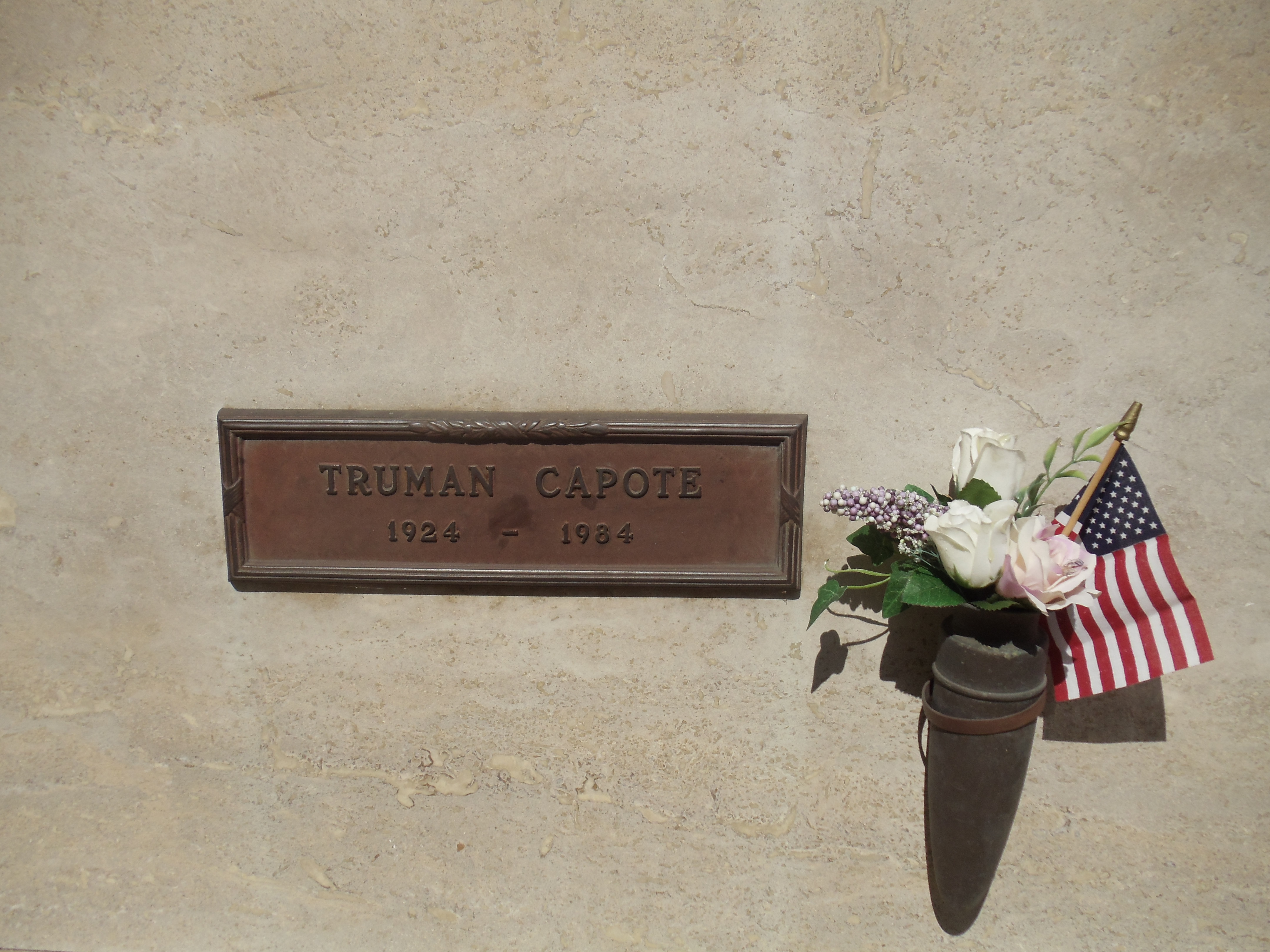 Truman Capote's tomb in Westwood Memorial Park in Westwood, Los Angeles, California